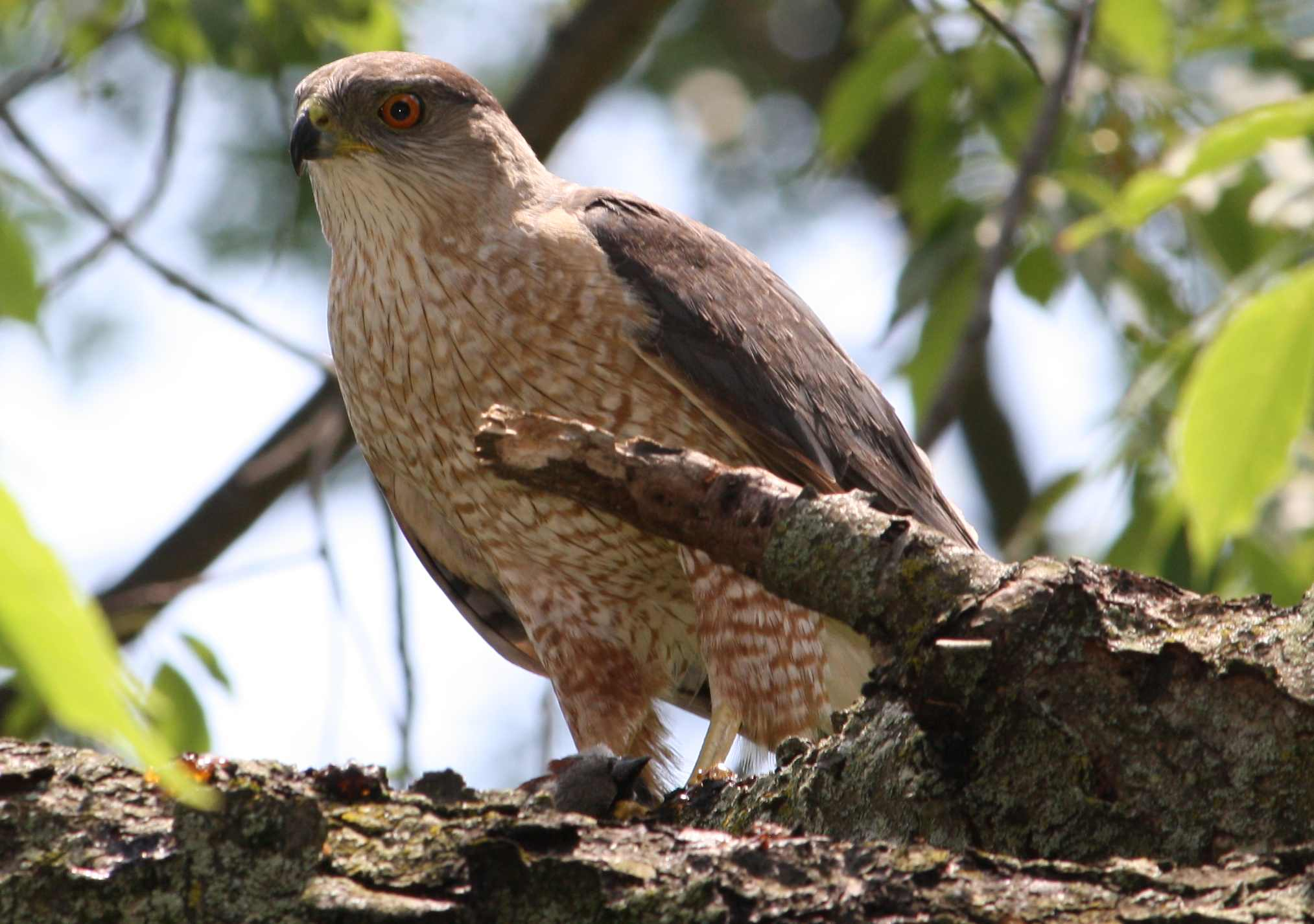 Cooper's Hawk Accipiter cooperii with kill